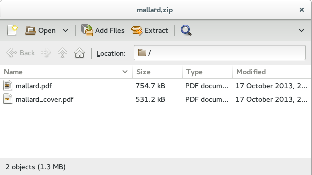 Archive Manager, also known as file-roller, using the Adwaita theme in GNOME 3